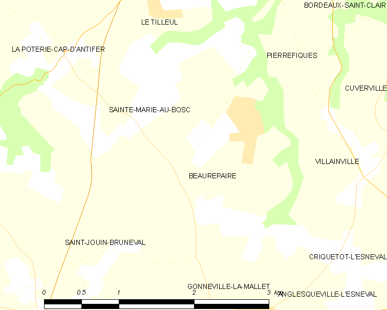 Map of French municipality Beaurepaire